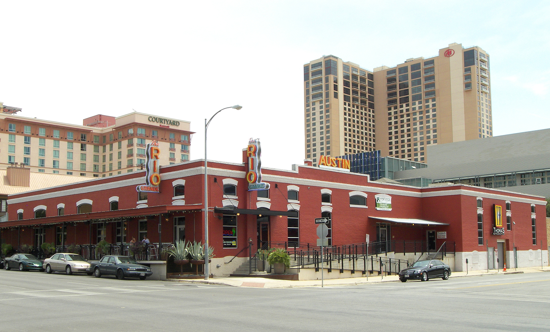 The former The Real World: Austin "house" located at 301 San Jacinto Boulevard and East 3rd Street, Austin, Texas, United States.